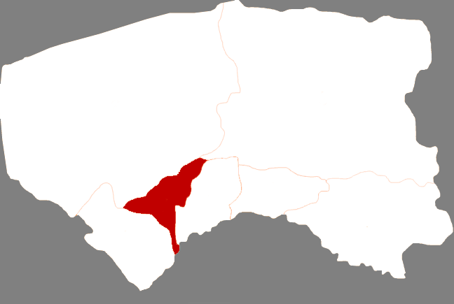 Locator map of Hanggin Rear Banner in Bayan Nur, Inner Mongolia, China